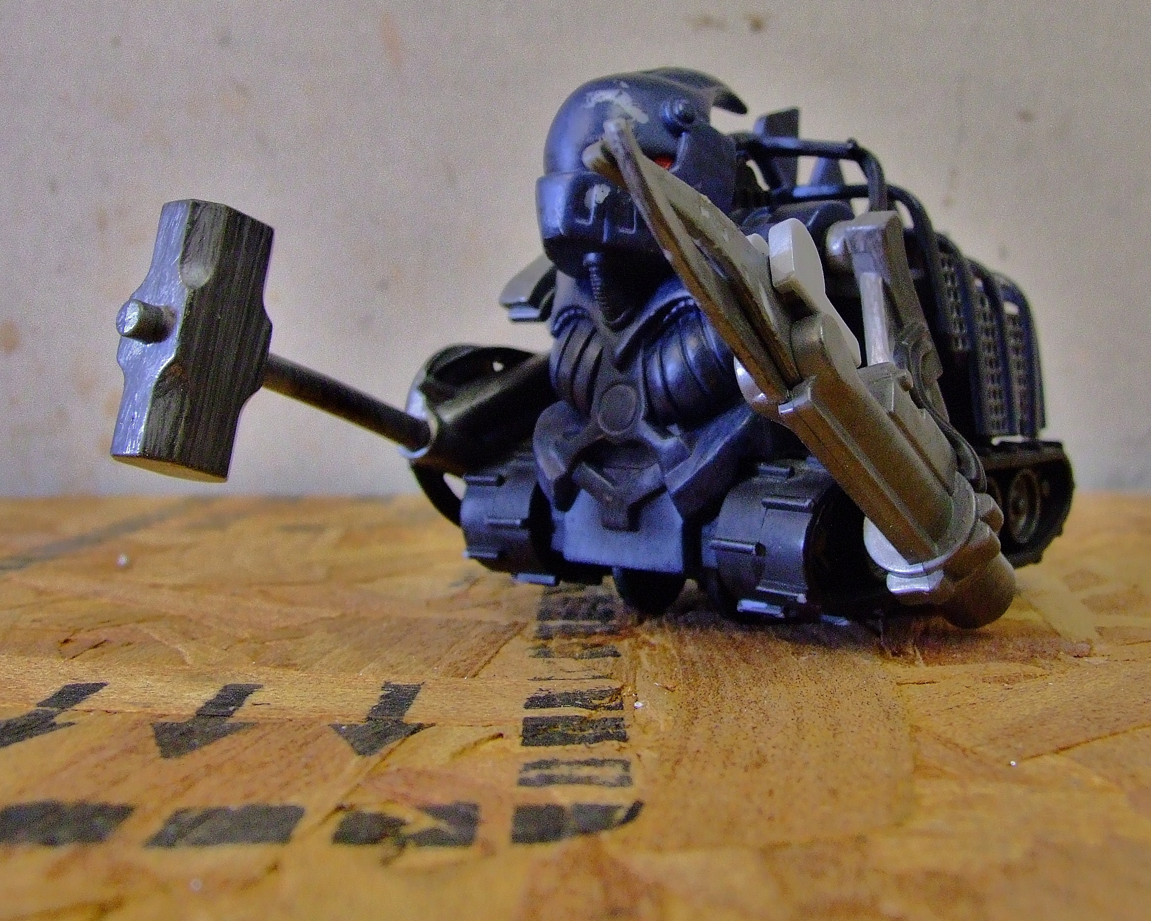 Terrifying "star" of RobotWars.